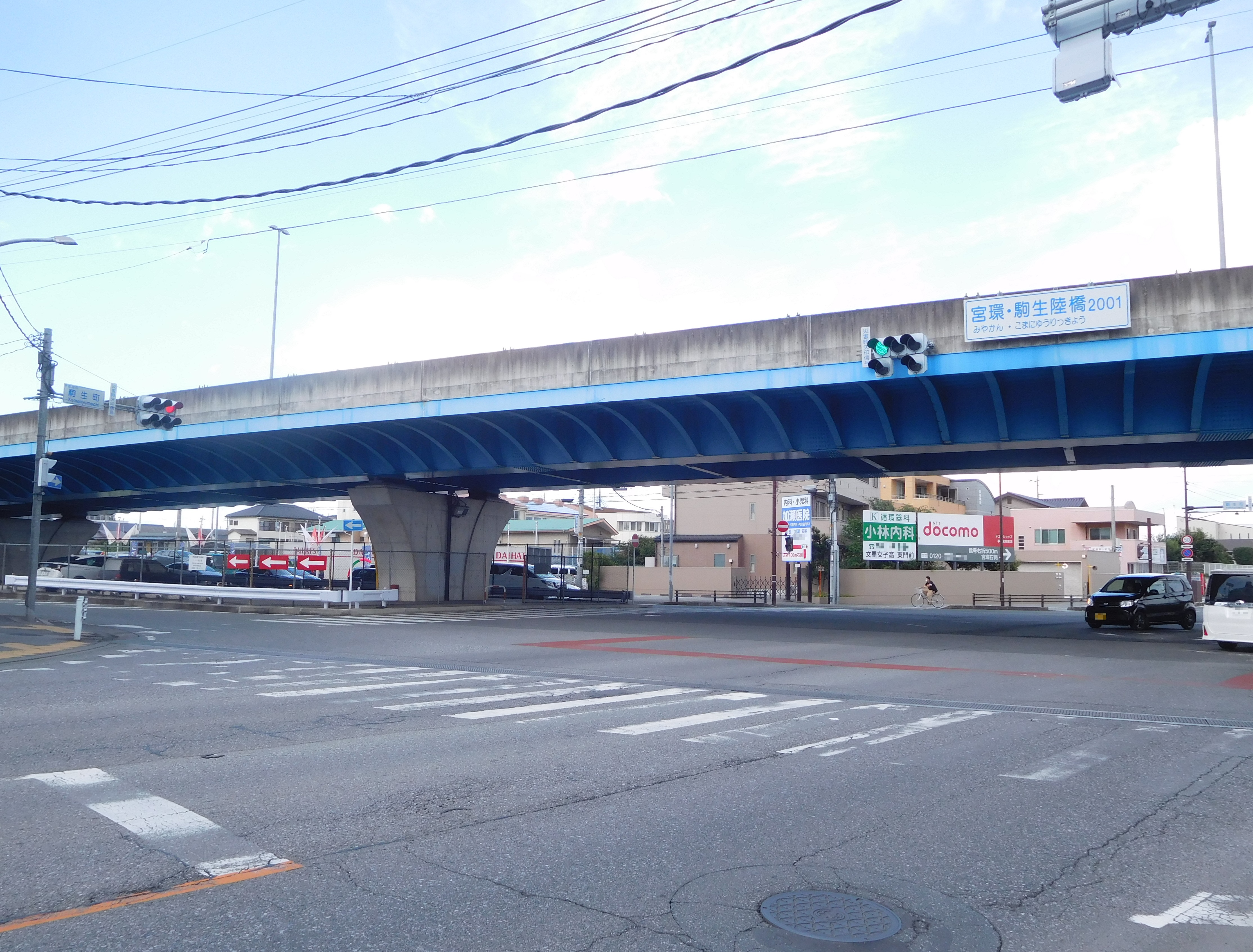 This is a brige "MIYAKAN Komanyu Overpass 2001" in Utsunomiya, Tochigi, Japan.